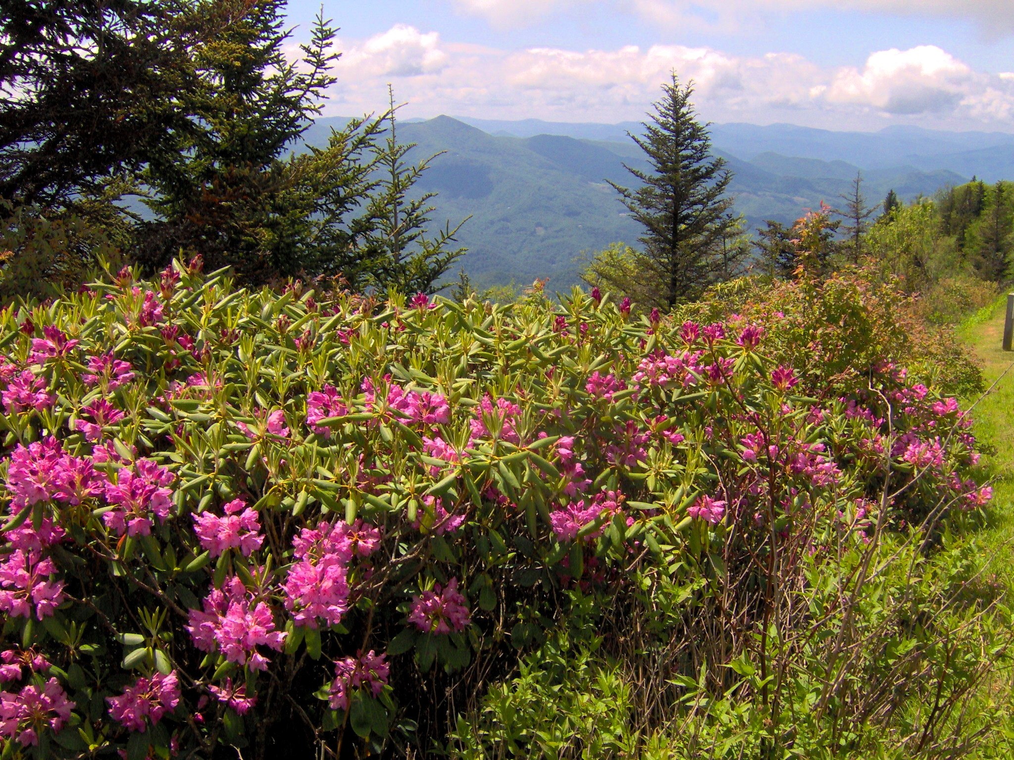 Catawba rhododendron near the Waterrock Knob visitor center, just below the summit of Waterrock Knob (el. 6,292-ft/1,918m).